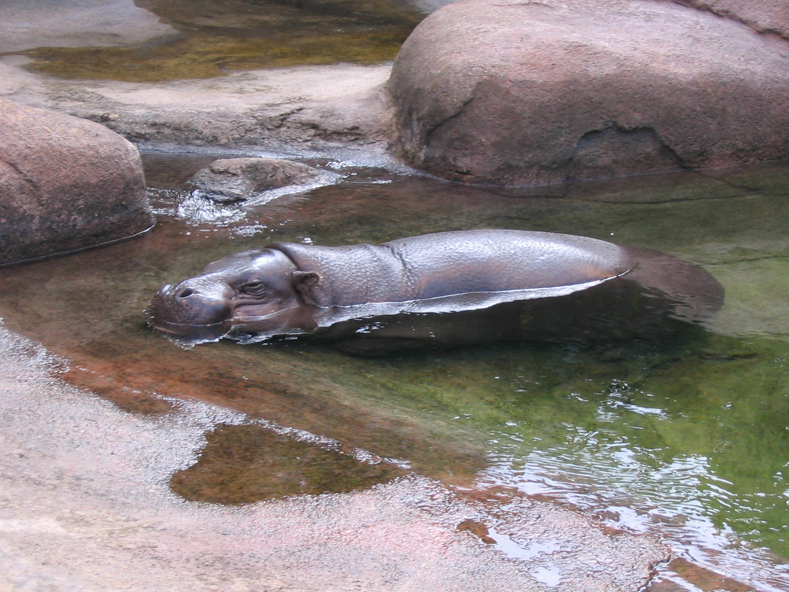 pygmy hippo / pygmy Hippopotamus